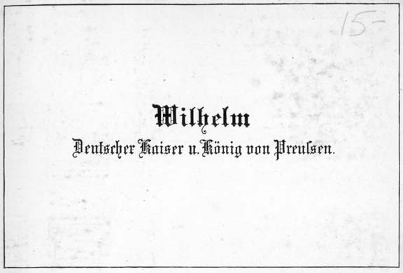 Visiting card of Kaiser Wilhelm. The German text reads, "Wilhelm, Deutscher Kaiser u. König von Preußen" (translation: "William, German Emperor and King of Prussia").